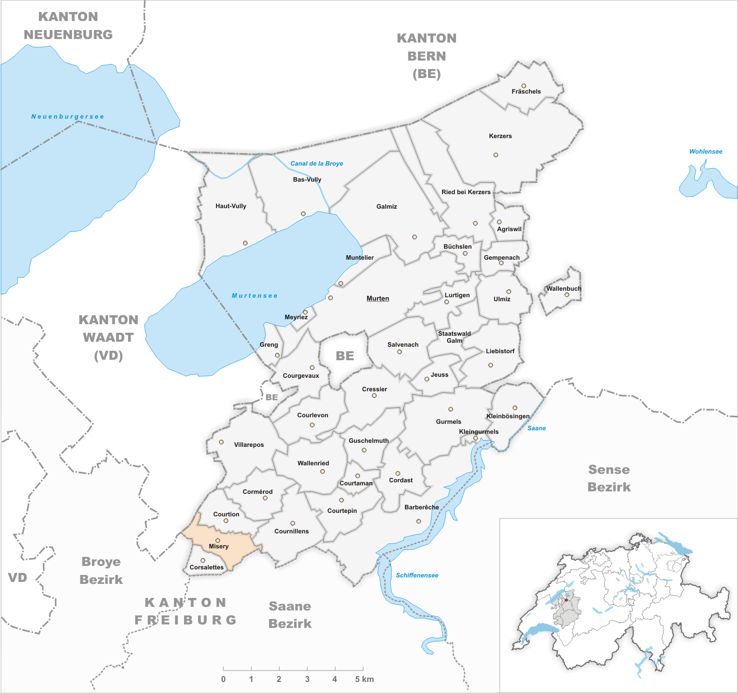 Municipality Misery Artist: Tschubby